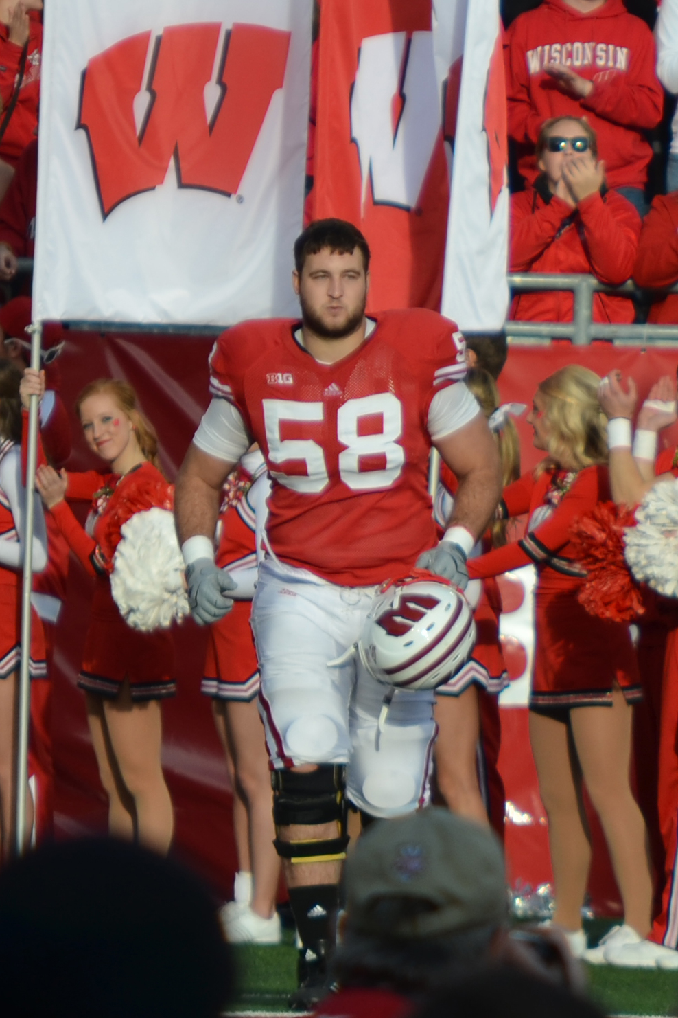 Ricky Wagners's Senior Introductions vs Ohio State 11.17.12